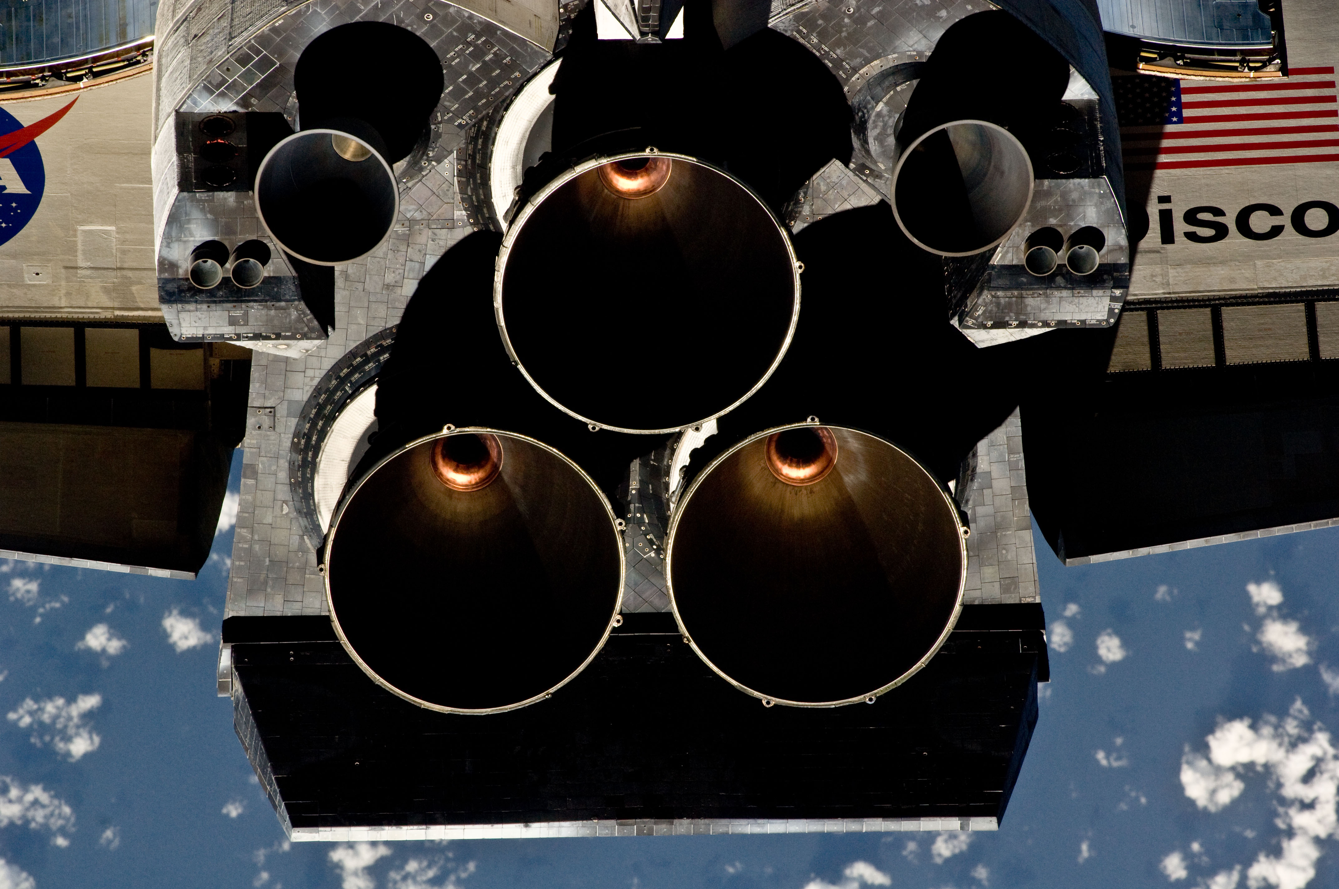 This view of the aft portion of the space shuttle Discovery, including the three main engines and part of the wings, was provided by an Expedition 26 crew member during a survey of the approaching STS-133 vehicle prior to docking with the International Space Station. As part of the survey and part of every mission's activities, Discovery performed a back-flip for the rendezvous pitch maneuver (RPM). The image was photographed with a digital still camera, using a 400mm lens at a distance of about 600 feet (180 meters).